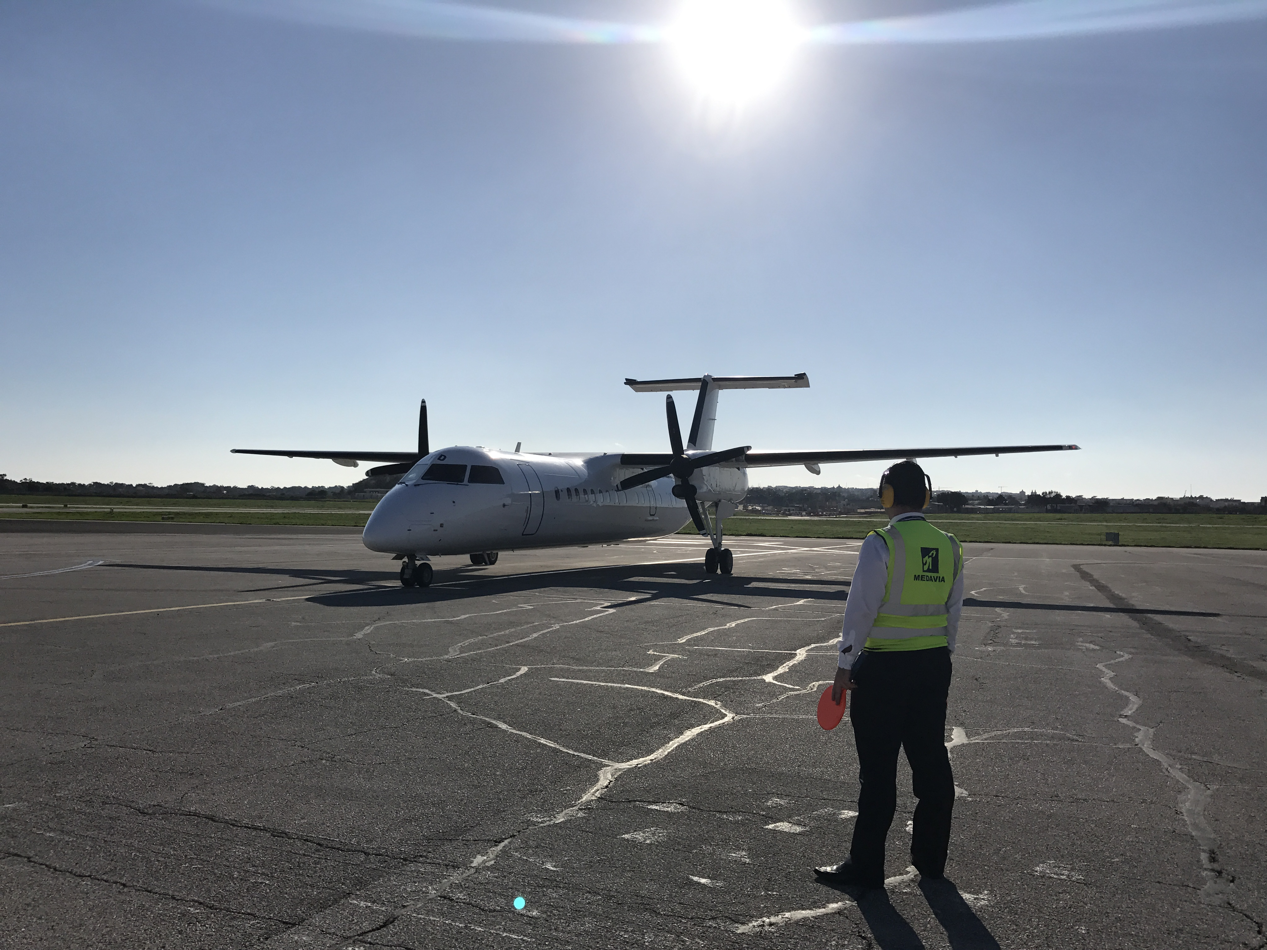 Medavia Dash 8-Q315, parked in Malta International Airport.